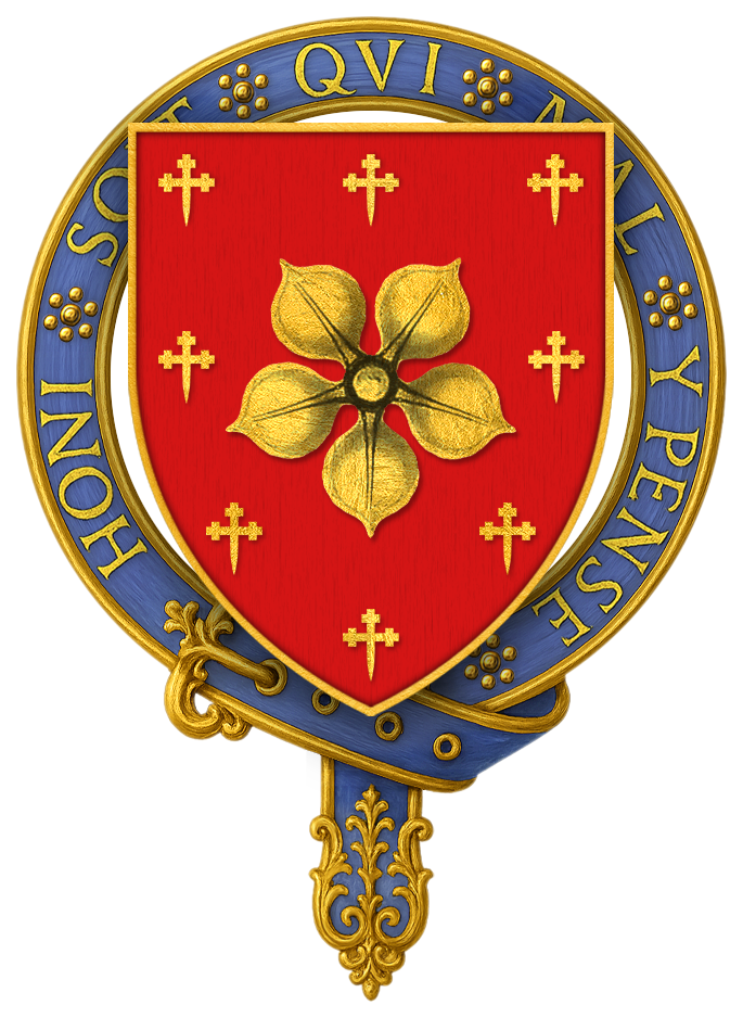 Coat of Arms of Sir Robert de Umfraville, KG FOSTER, Joseph, Some Feudal Coats of Arms from Heraldic Rolls 1298-1418, London: James Parker & Co., 1902. “Umfraville, Gilbert, Earl of Angus -- bore, at the battle of Falkirk 1298, gule crusily and a cinquefoyle or -- in some Rolls the cinquefoyle is pierced (F.); crusily patee in Guillim Roll), borne by Robert, at the siege of Rouen 1418 (with a crescent for difference), and ascribed to Thomas, - crusily patee in Jenyn' Ordinary. Sir Robert, K.G. 1409-13, differenced with a baston azure...”